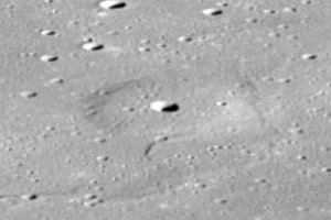 Oblique view of lunar dome Omega Cauchy, with small crater Donna at its summit, Mare Tranquillitatis, on the moon, facing west.